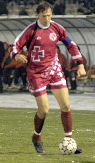 Olexander Pyschur, forward of FC Volyn Lutsk